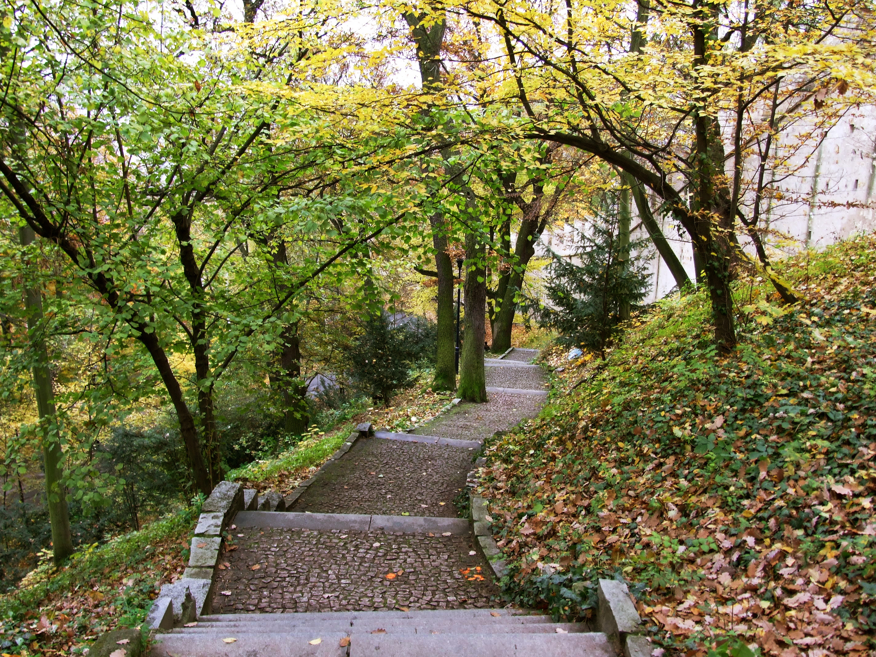 Autumn in Petřín, Prague